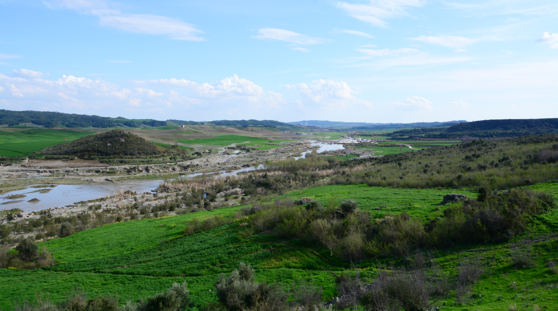 A view of Çakıt River in the south of Canyon Kapıkaya. Adana - Turkey.